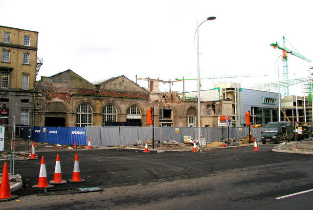 Paragon Station under renovation This is all the at remains of the frontage of Paragon Station. It is currently undergoing renovation as part of the new St. Stephen's Development. Up until very recently, the station was fronted with a stereotypical featureless 60s office block.